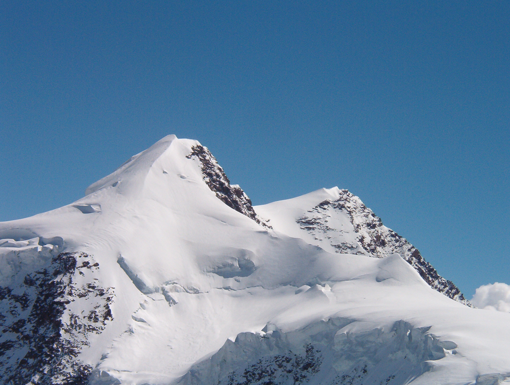 Monte Lyskamm from Pollux - Pennine Alps